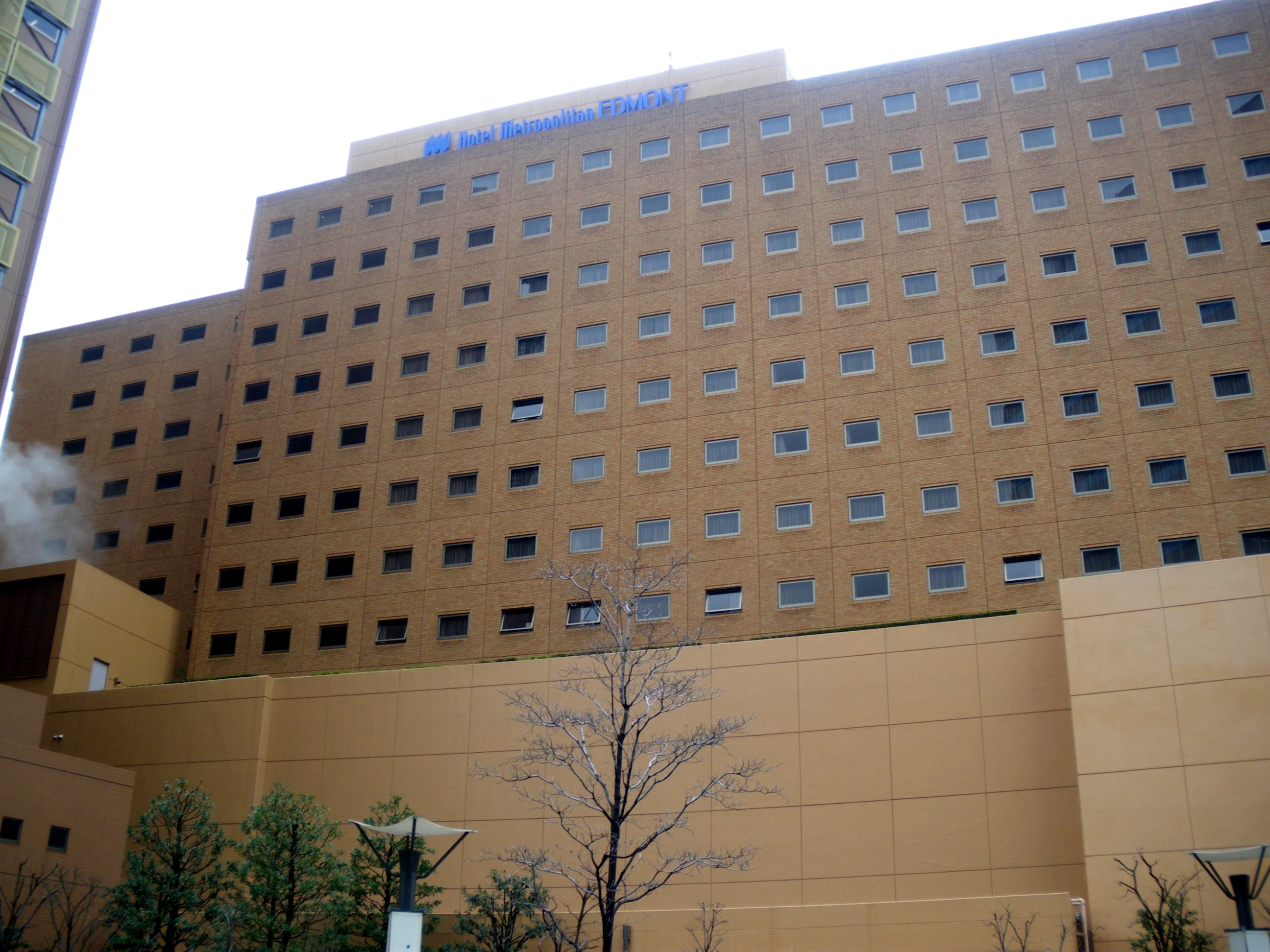 Hotel Metropolitan Edmont (Iidabashi, Chiyoda, Tokyo)